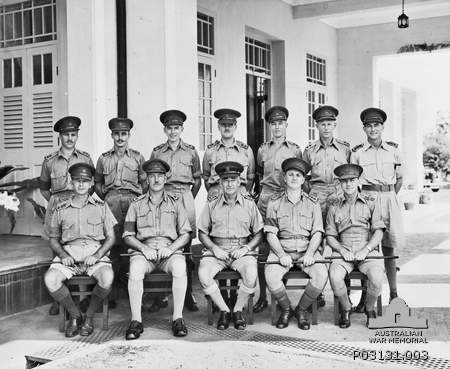 Group portrait of Officers of the 22nd Australian Infantry Brigade, Malaya, 1941 Front centre: Brigadier Harold Burfield Taylor, Commanding Officer Description: From left to right: back row: Lieutenant (Lt) Johnson; Captain (Capt) Butler; Lt (Frederick Gordon?) Lusk; Lt William Henry Bathgate, Liaison Officer; Lt Macdonald; Lt Hasting; Capt Craig. Front row: Capt Hardern; Major Donkers; Brigadier Harold Burfield Taylor, Commanding Officer; Captain Thompson; Capt Claude Smith Pickford, AASC Officer. Most of these men later became Prisoners of War (POWs) after the fall of Singapore.